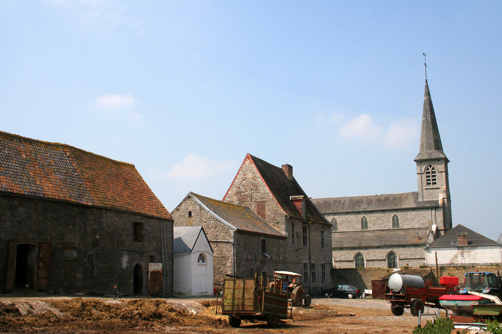 Villers-Poterie (Belgium) : courtyard of the St Rolende castle farm (XVIth century) with the chapel dedicated to the Saint and the church of St Radegund (1868).